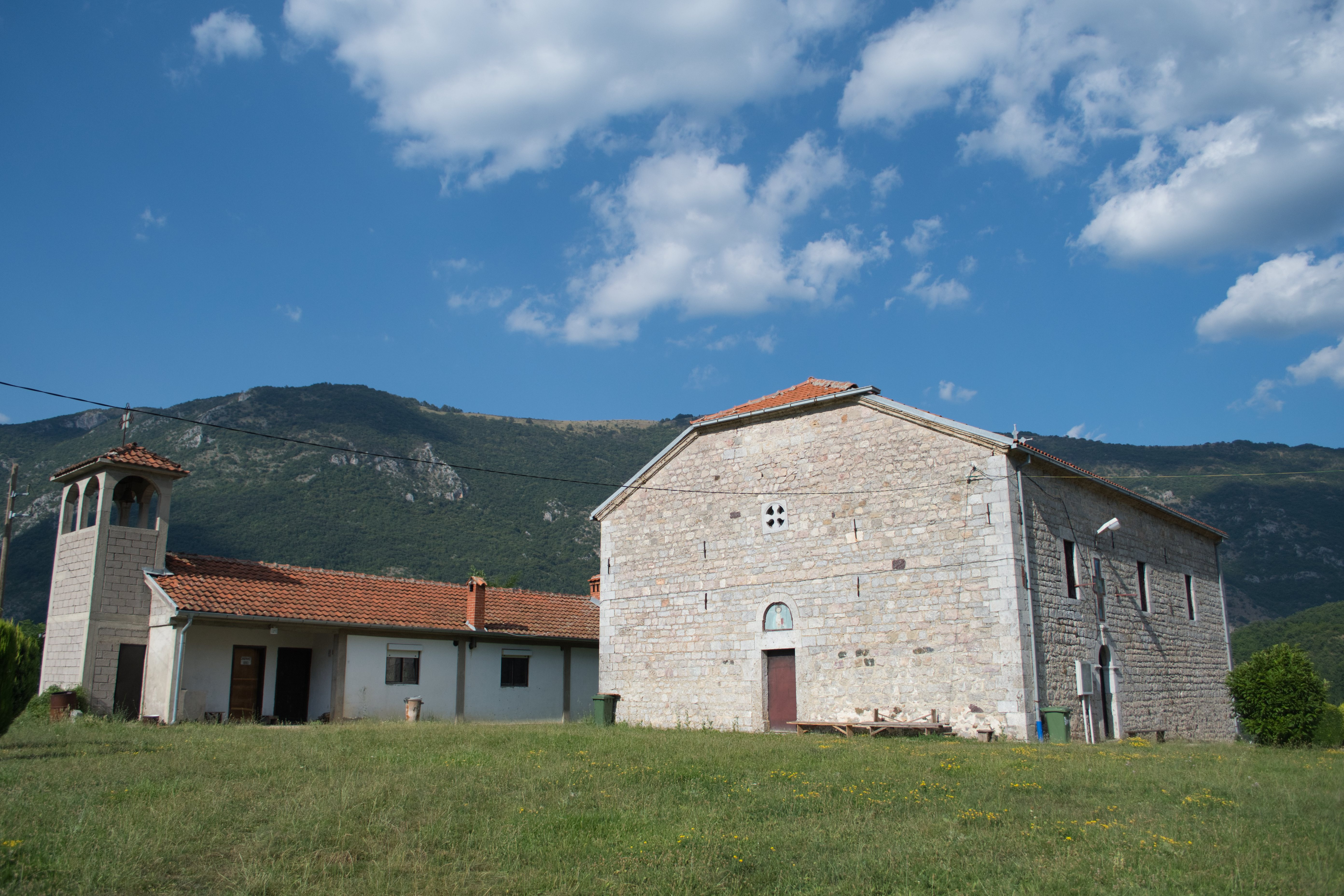 St. Athanasius Church in the village of Lukovo